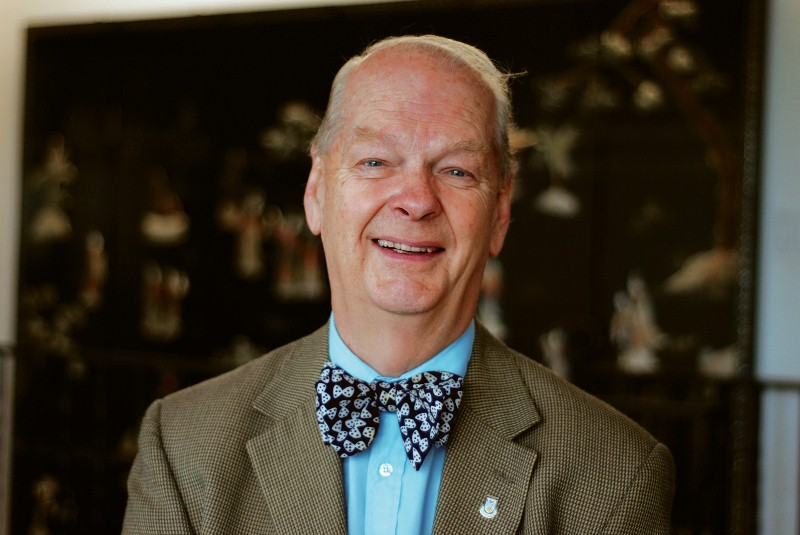 Home, 2007